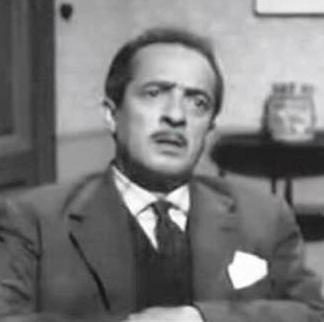 screenshot from the film "arrivano i dollari" (1957)